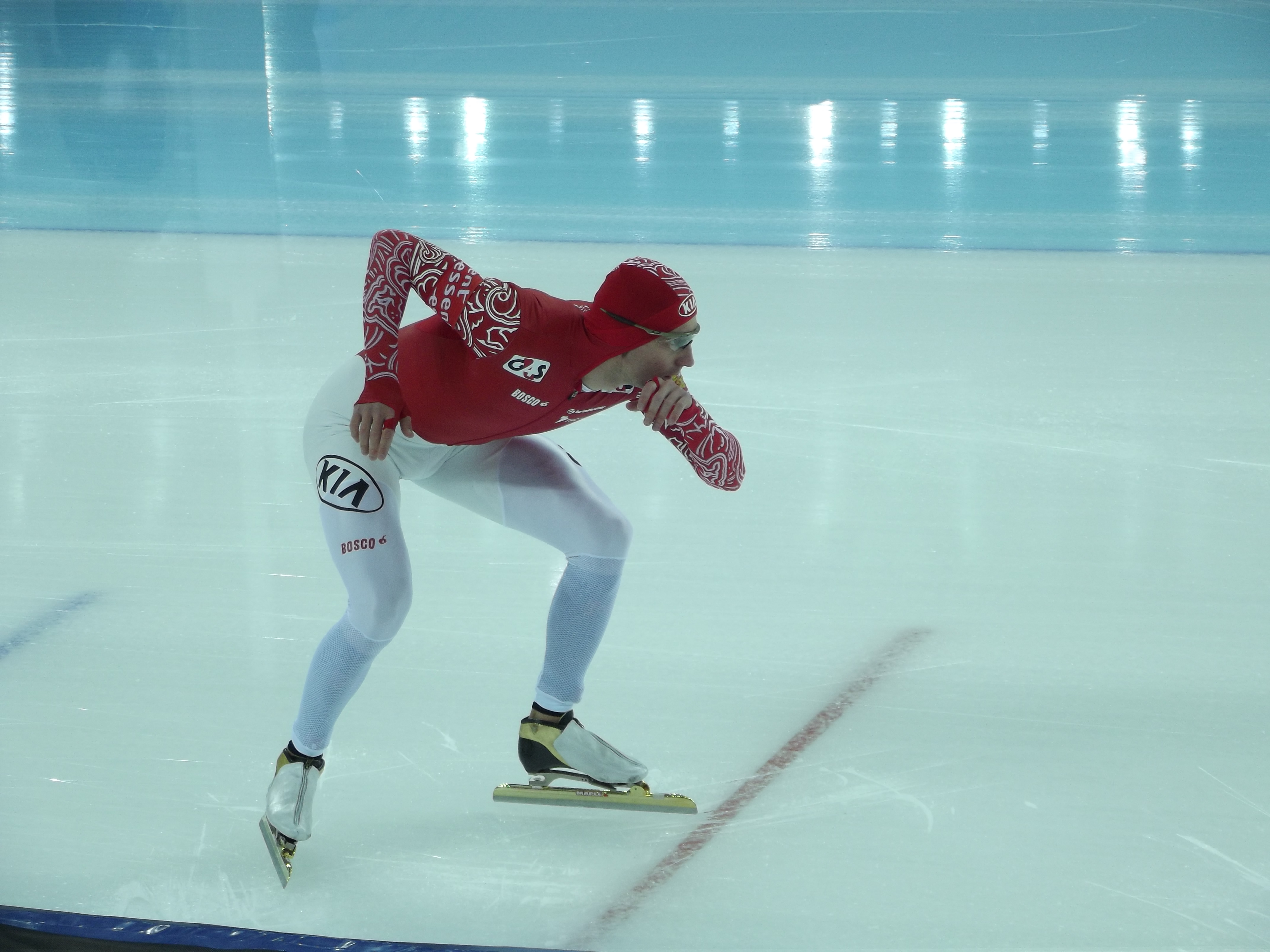 2013 World Single Distance Speed Skating Championships